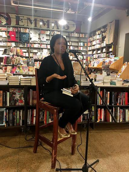 Jordannah Elizabeth at Emms talking about Journalism